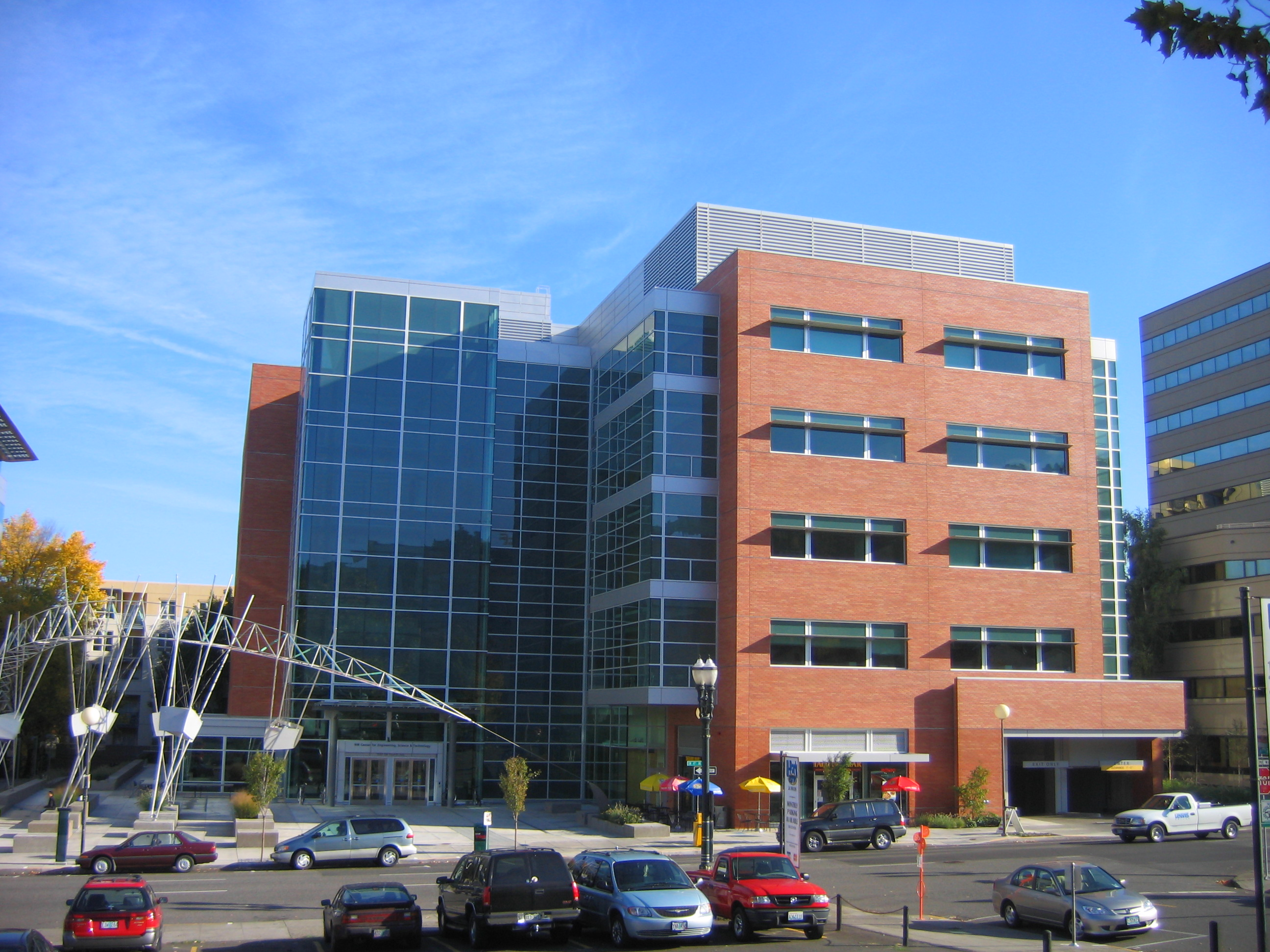 Taken October 2006 by Josef Lotz. Portland State University, Portland, Oregon